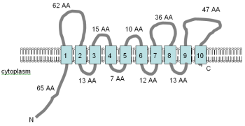 Revel Drummond, 2004 This image shows the predicted transmembrane topology of the MGTE protein from Humans